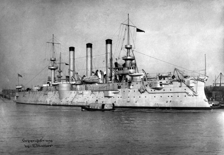 Armored Cruiser USS Brooklyn (ACR-3). At the New York Navy Yard, Brooklyn, NY, 1898. Removed caption read: "Photo # NH 91960 Brooklyn at New York Navy Yard".